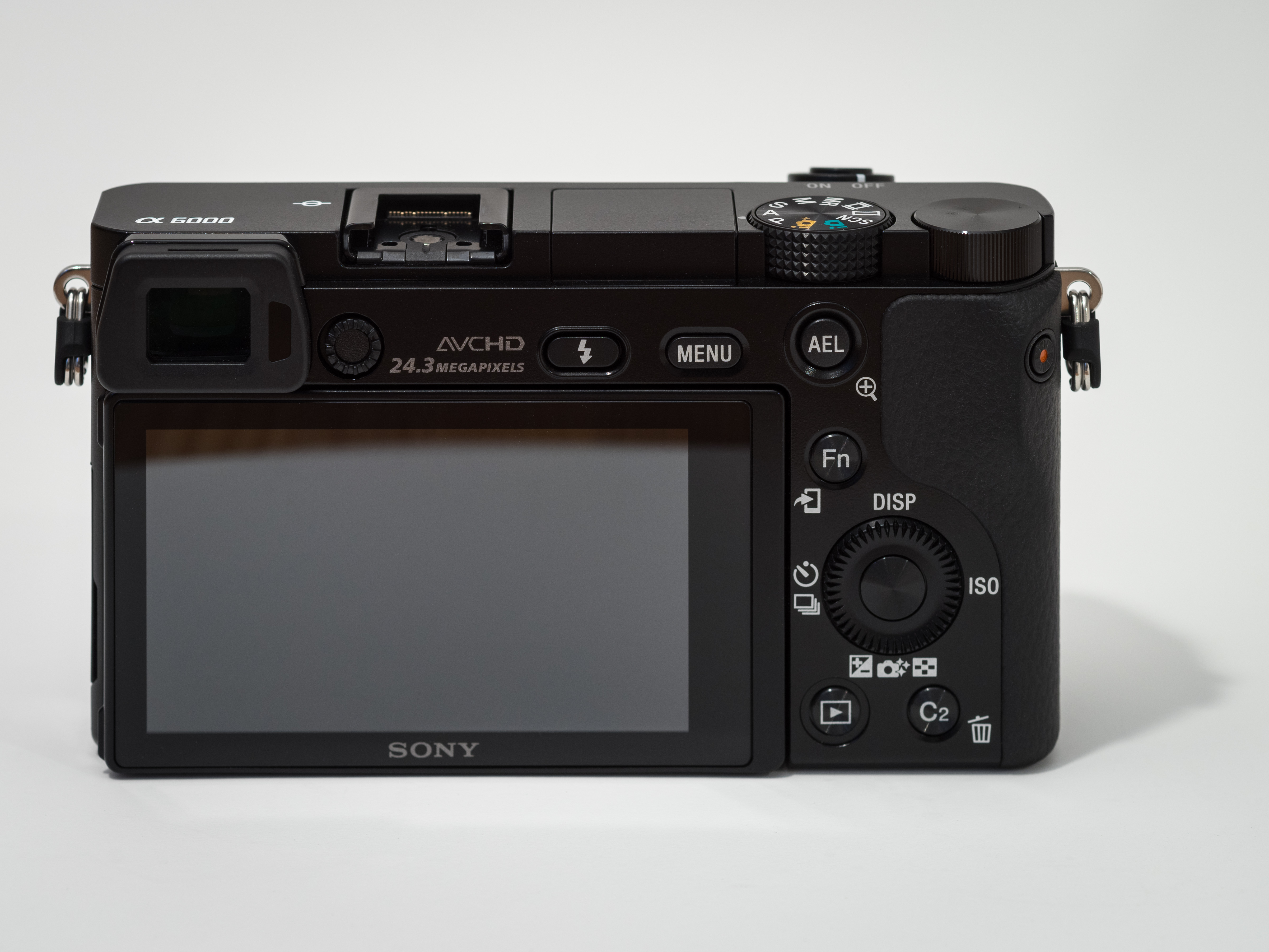 Sony Alpha ILCE-6000 APS-C-frame camera (mirrorless interchangeable-lens camera).